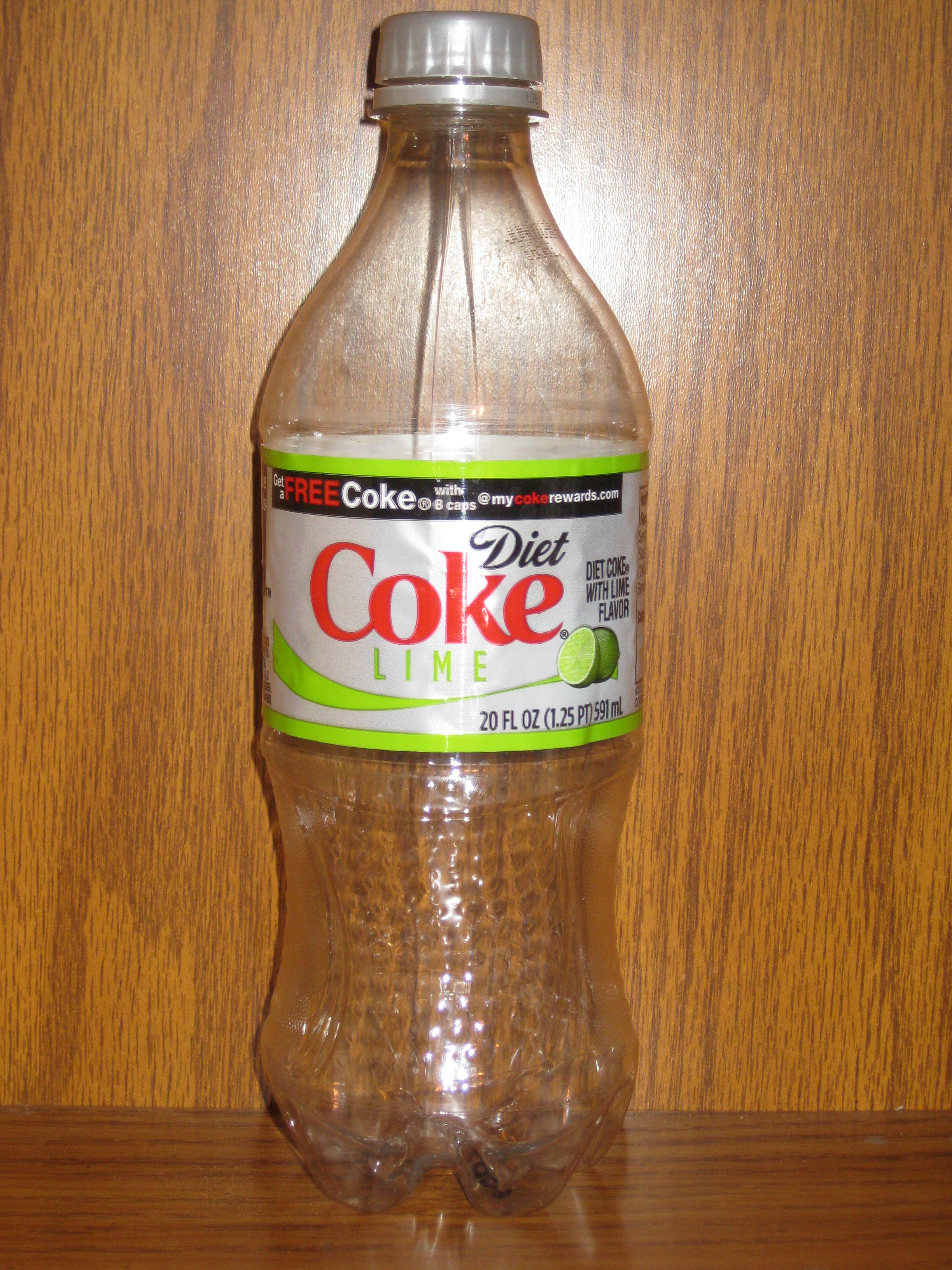 Diet Coke with Lime